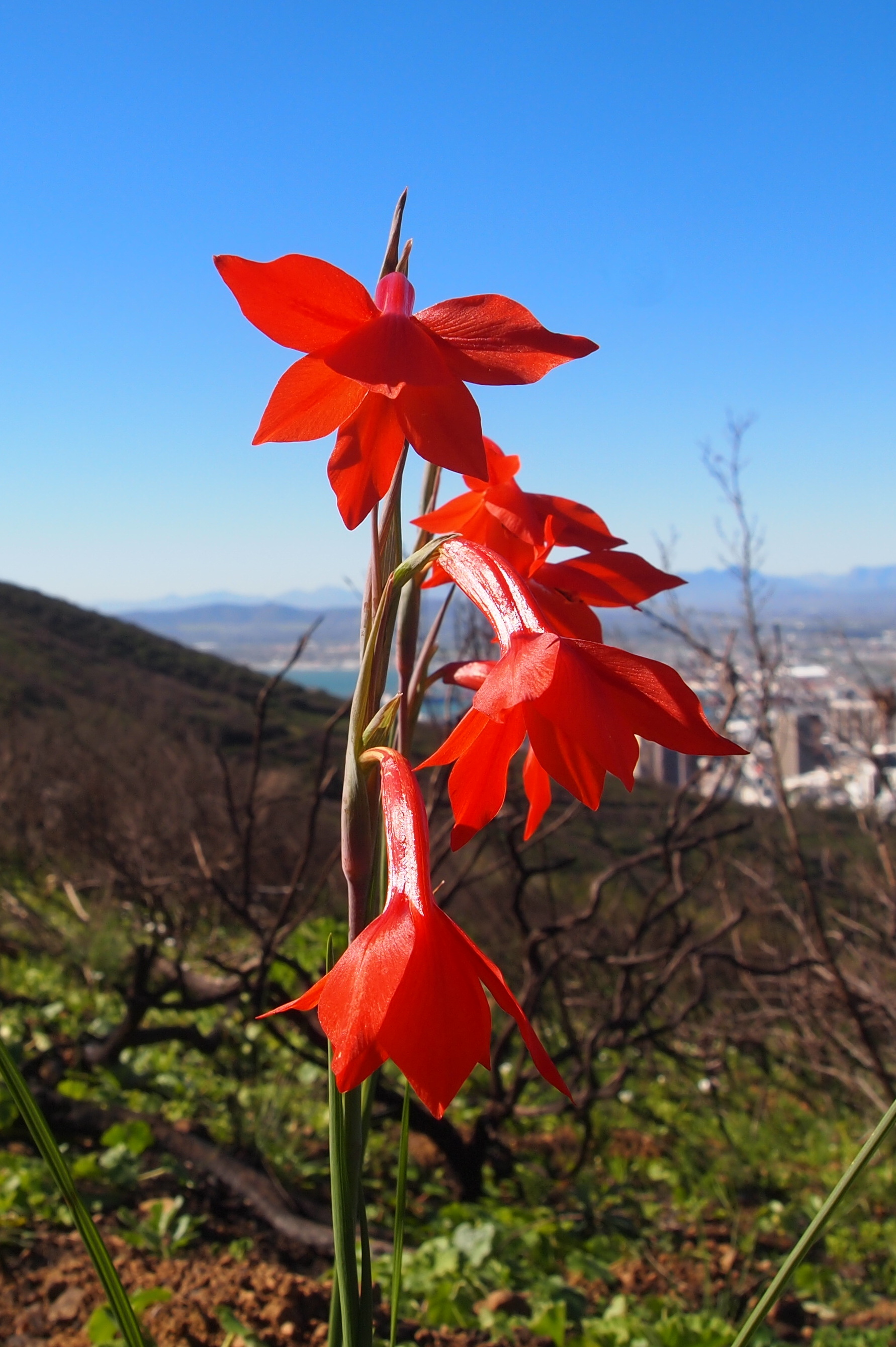 Rooi Afrikaner, Signal Hill, Cape Town